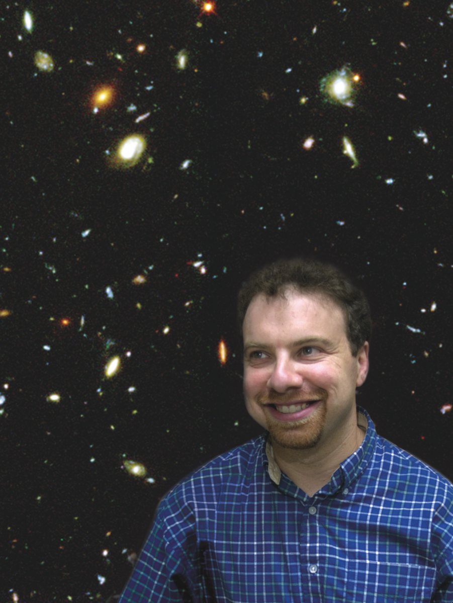 smithsonian